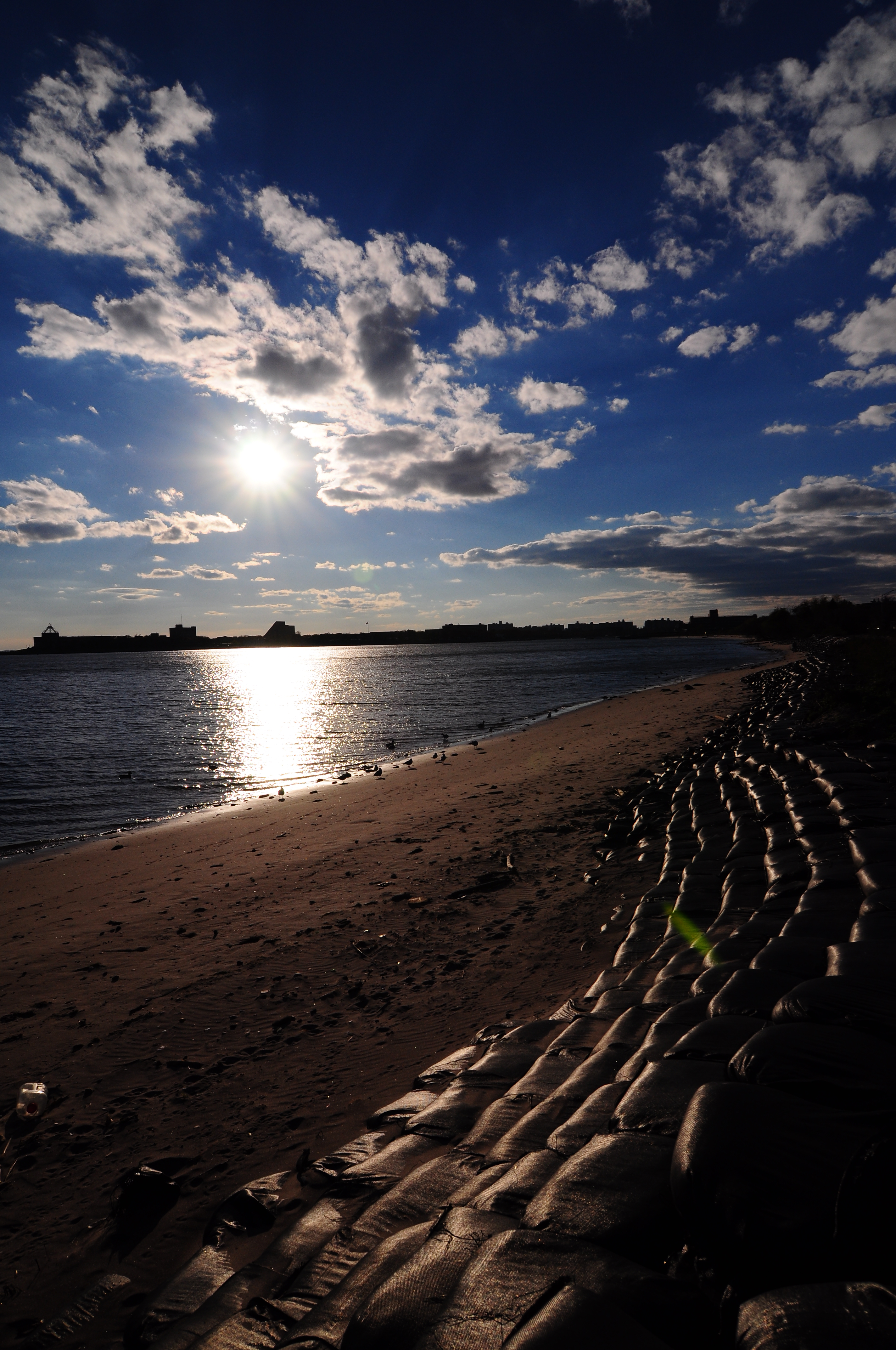 coney island